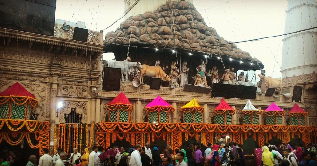 Daan Ghati temple , Goverdhan, Mathura. this image is taken during Diwali Days of Goverdhan Pooja.